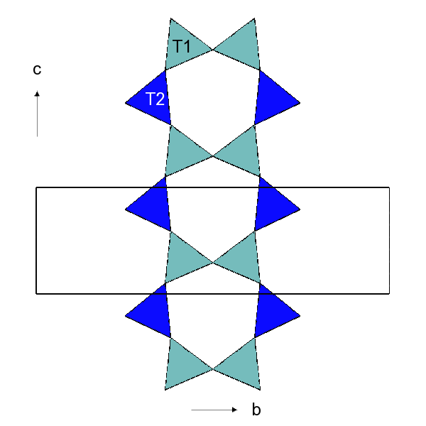 Amphibole structure: Si double chain author: W. Bubenik